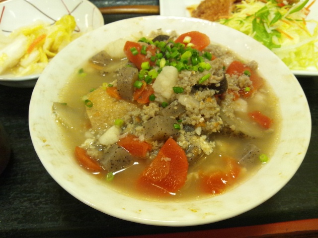 Funameshi ("stir-fried crucian carp with rice"), local cuisine from Kurashiki, Japan